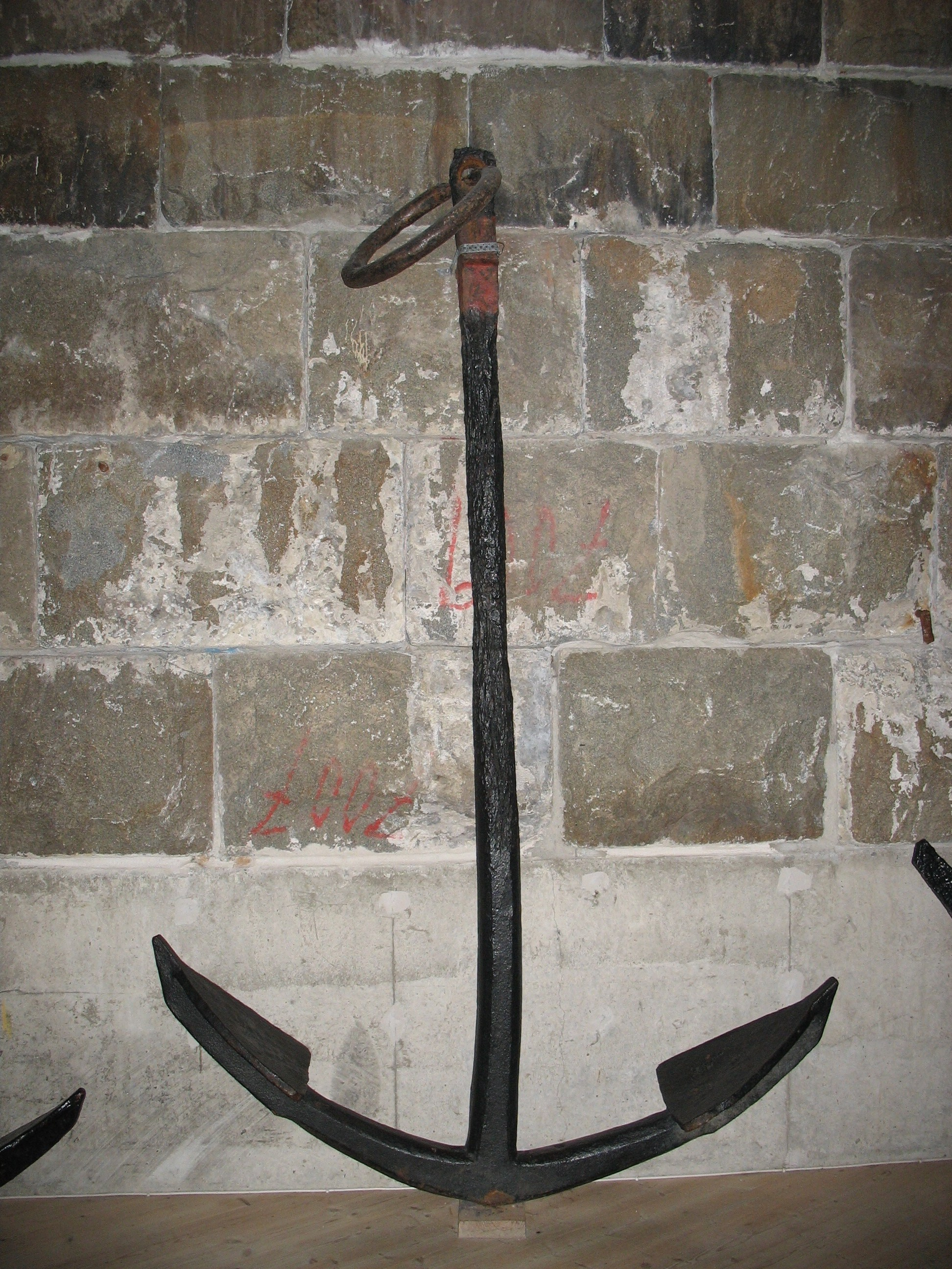 An anchor from the 17th century warship Vasa on display at the Vasa Museum in Stockholm.